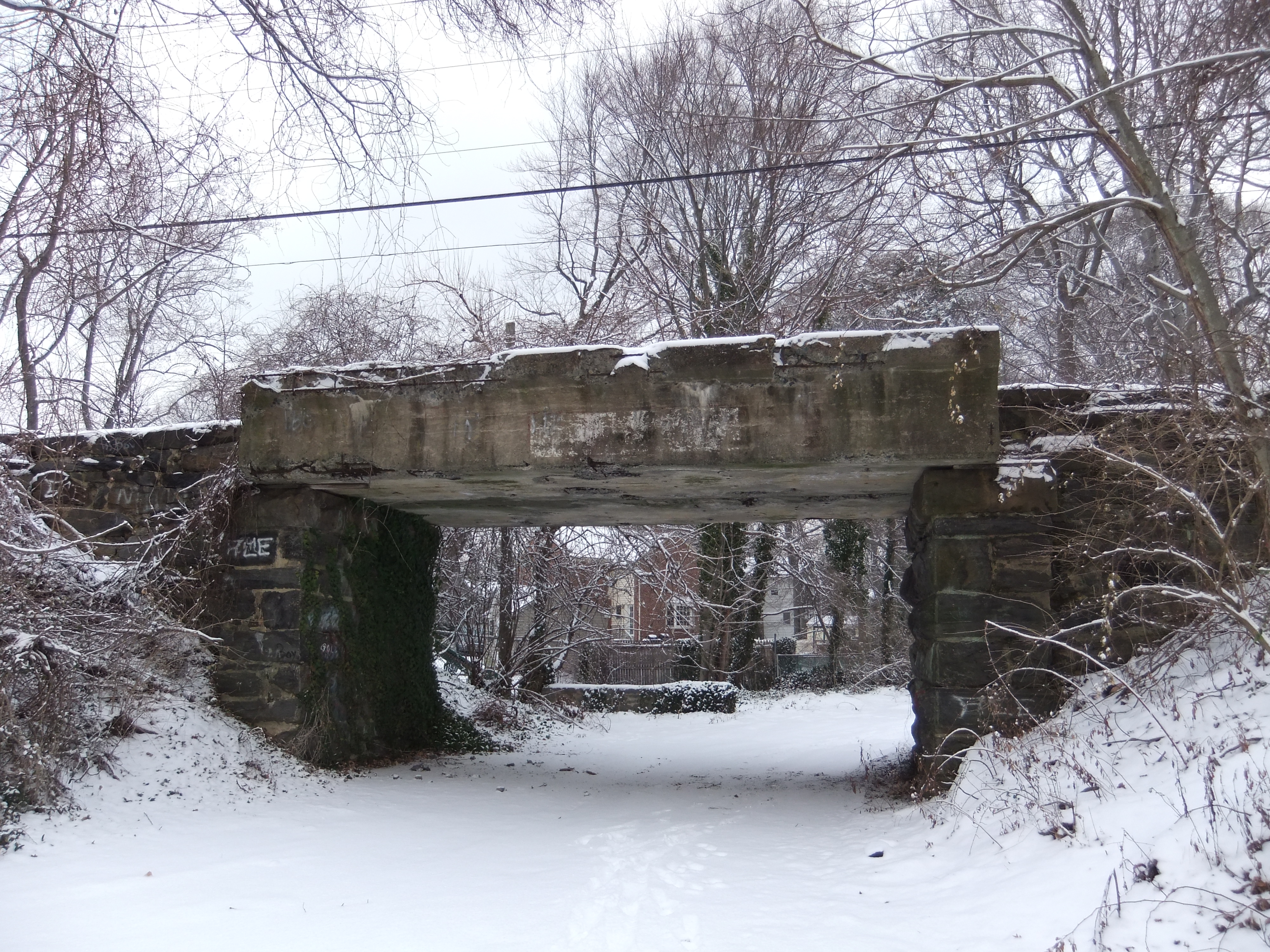 A small bridge over Concord Road in Haverford, Pennsylvania on the right-of-way of the Pennsylvania Railroad's Newtown Square Branch.